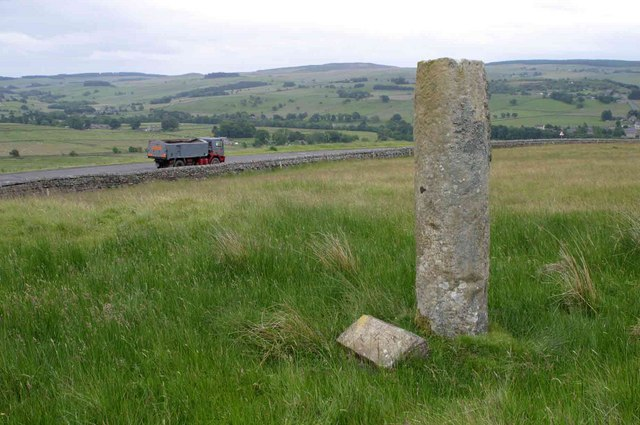 Uninscribed (anepigraphic) Roman milestone next to a Bronze Age round cairn, at 580 m north of Woodhouse, situated just off a Roman road named Dere Street, seen in the background, on north of West Woodburn. The milestone, 2 m high, erected on the edge of a tumulus (9 m in diameter by up to 0.6 m high - partially excavated at unknown date and unpublished), is included in the scheduling of the archaeological site. This possible miliaria is said to have come originally from the Roman bridge which carried Dere Street across the Rede (or a tributary ?), near the Habitancum Roman fort. Paving of the bridge was noted in the river bed in the XIXe century, but this has since been removed and there is now no trace of the crossing. The milestone was moved to a local farm and incorporated into a building and subsequently was erected in its present position in 1971 by The Redesdale Society. See Roman milestone and bridge bibliogr. and more pictures of the tumulus